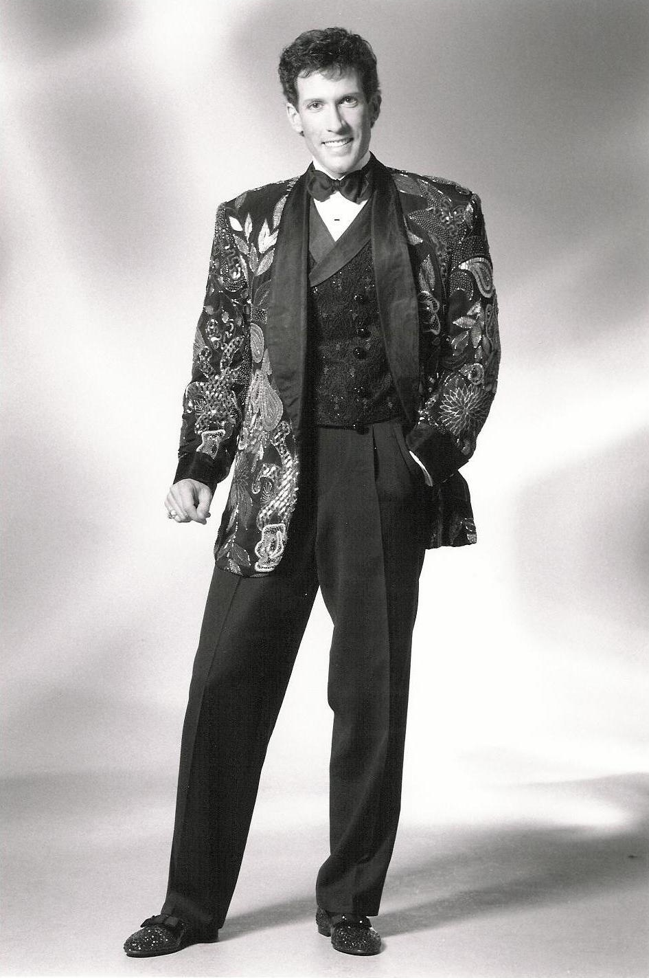 Headshot of Craig Dahn